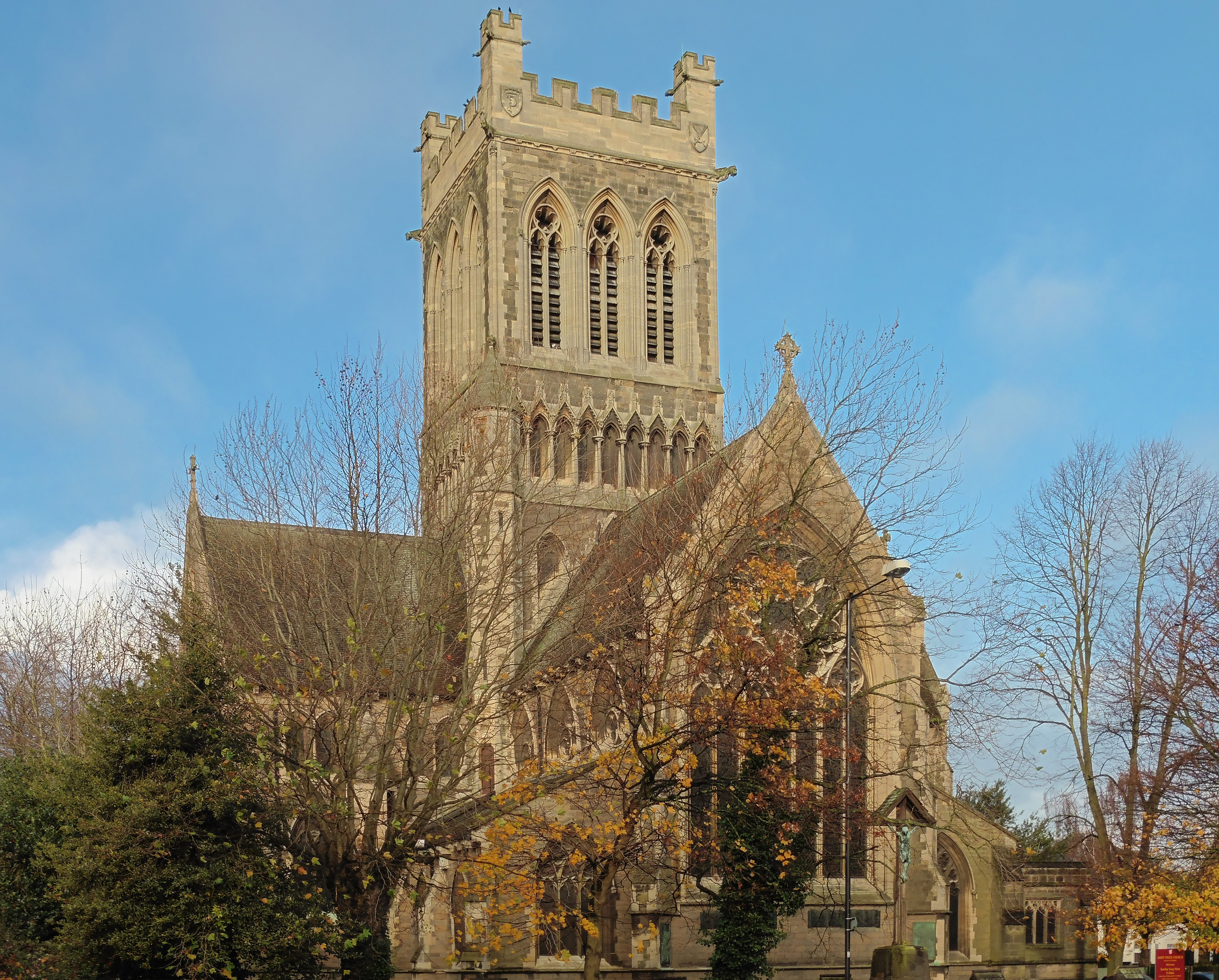 Photograph of St Paul's Church, Shobnall, Burton upon Trent, Staffordshire, England